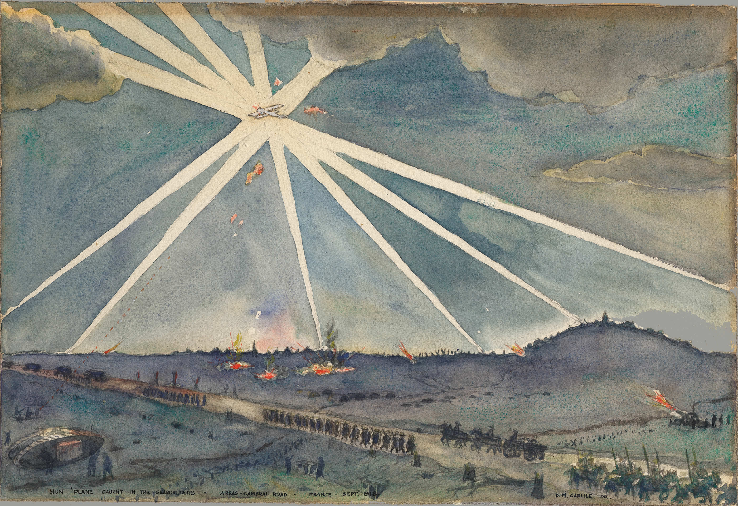 A German observation plane, caught in six searchlights, is fired at by multiple anti-aircraft guns on the ground. This scene occurred along the Arras-Cambrai Road in September 1918.